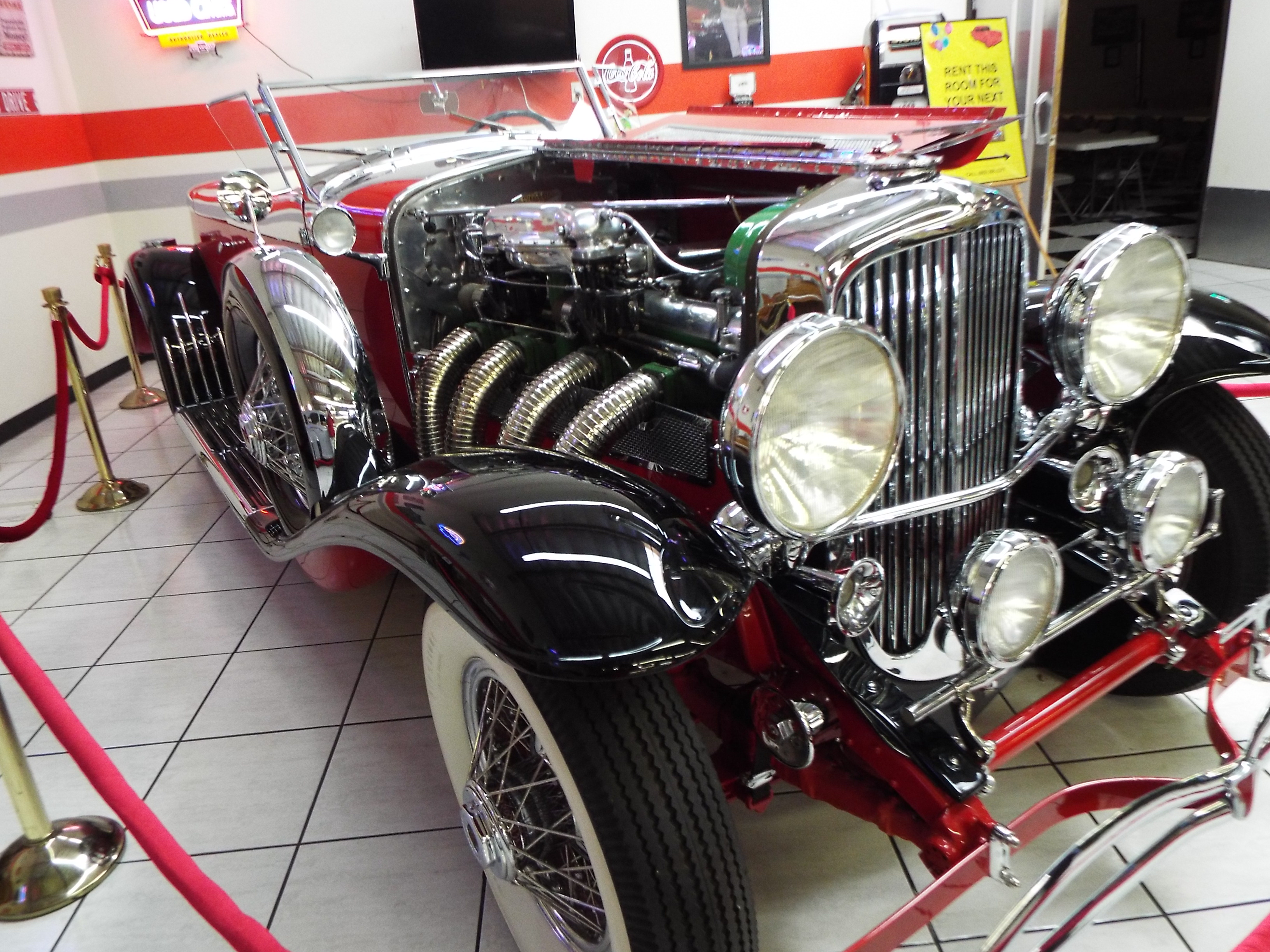 Martin Auto Museum-1930 Duesenberg Boattail Speedster which once belonged to gangster John Factor